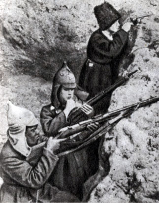 Film still of Red devils (1923 film)